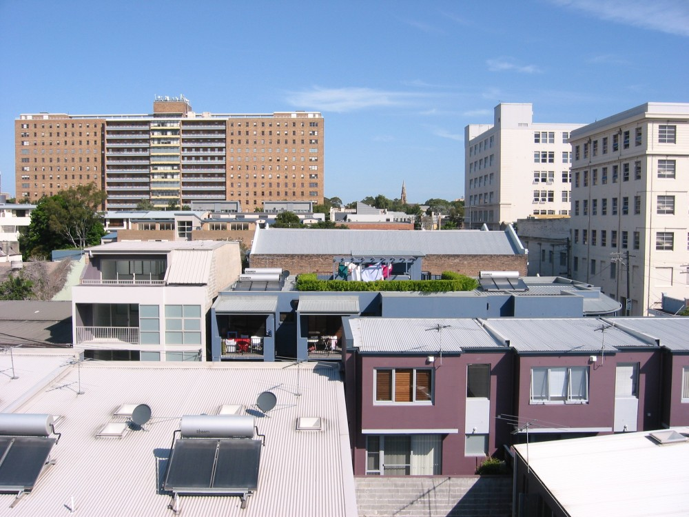 Camperdown, New South Wales, looking towards the Queen Mary Building.